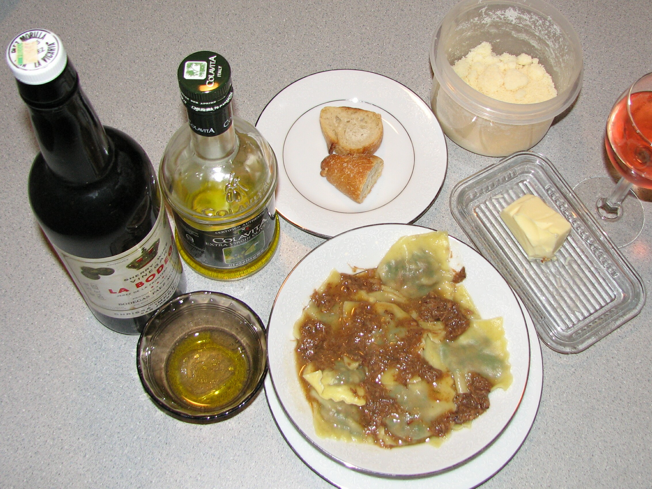 Cooked oxtail ravioli from a recipe from a restaurant in Nice, France, ready to eat, along with a number of condiments to add to them